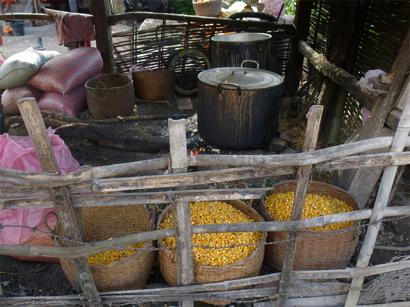 Ban Patoy, Luang Namtha Province, Laos. Home distillery of lao lao, a whisky made from rice or corn.